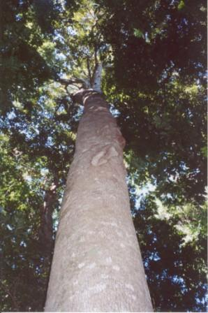 White Beech at Davis Scrub, 30 metres tall